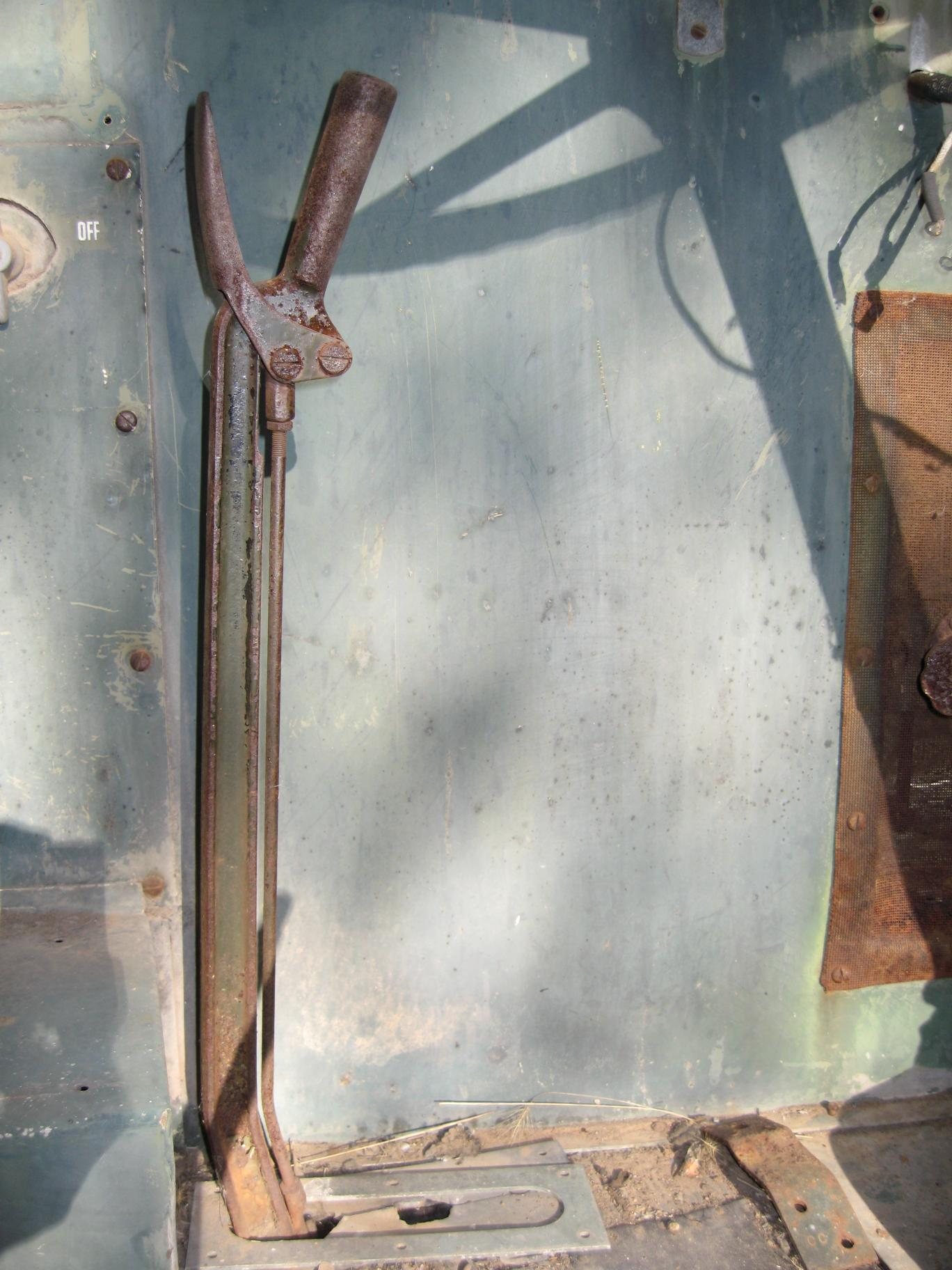 Johnson bar for a parking/emergency brake in a White transit bus originally operated by San Francisco Muni. The front of the bus is to the right; the brake is operated by squeezing the grip and pulling back on the lever, then continue to pull back and release the grip; the lever is currently in the rearmost position, corresponding to brake full on. The brake is released by pulling back then squeezing the grip to release the brake, the pushing the lever forward. Under the floor is a pivot for the lever and an arched "rack" with teeth; on the lever is a movable pawl that engages the rack. Squeezing the grip lifts the pawl to let the lever move freely, releasing the grip causes a spring to move the pawl to engage the rack and hold the lever from moving. The lever is just to the left of the driver, the driver's seat is removed in this picture.